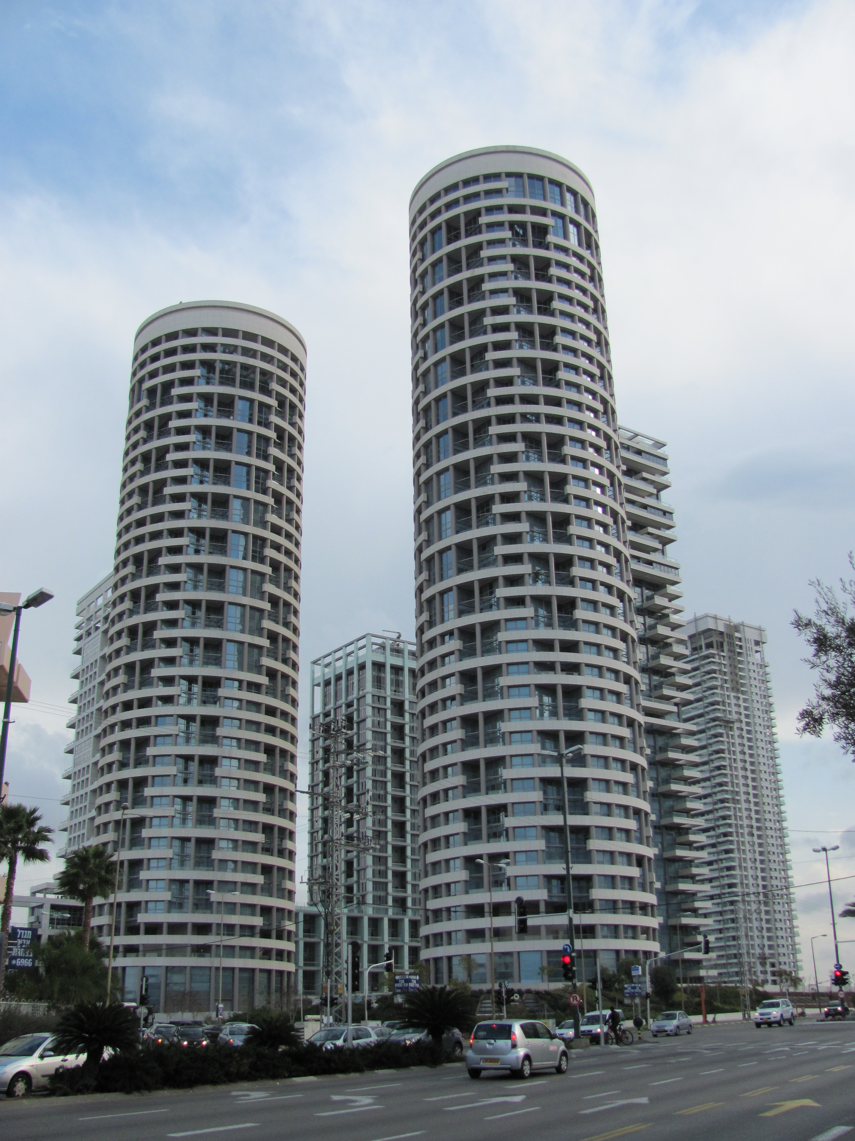 Northern tip of the Tsamaerte park neighborhood in Tel Aviv with Yoo towers in front.